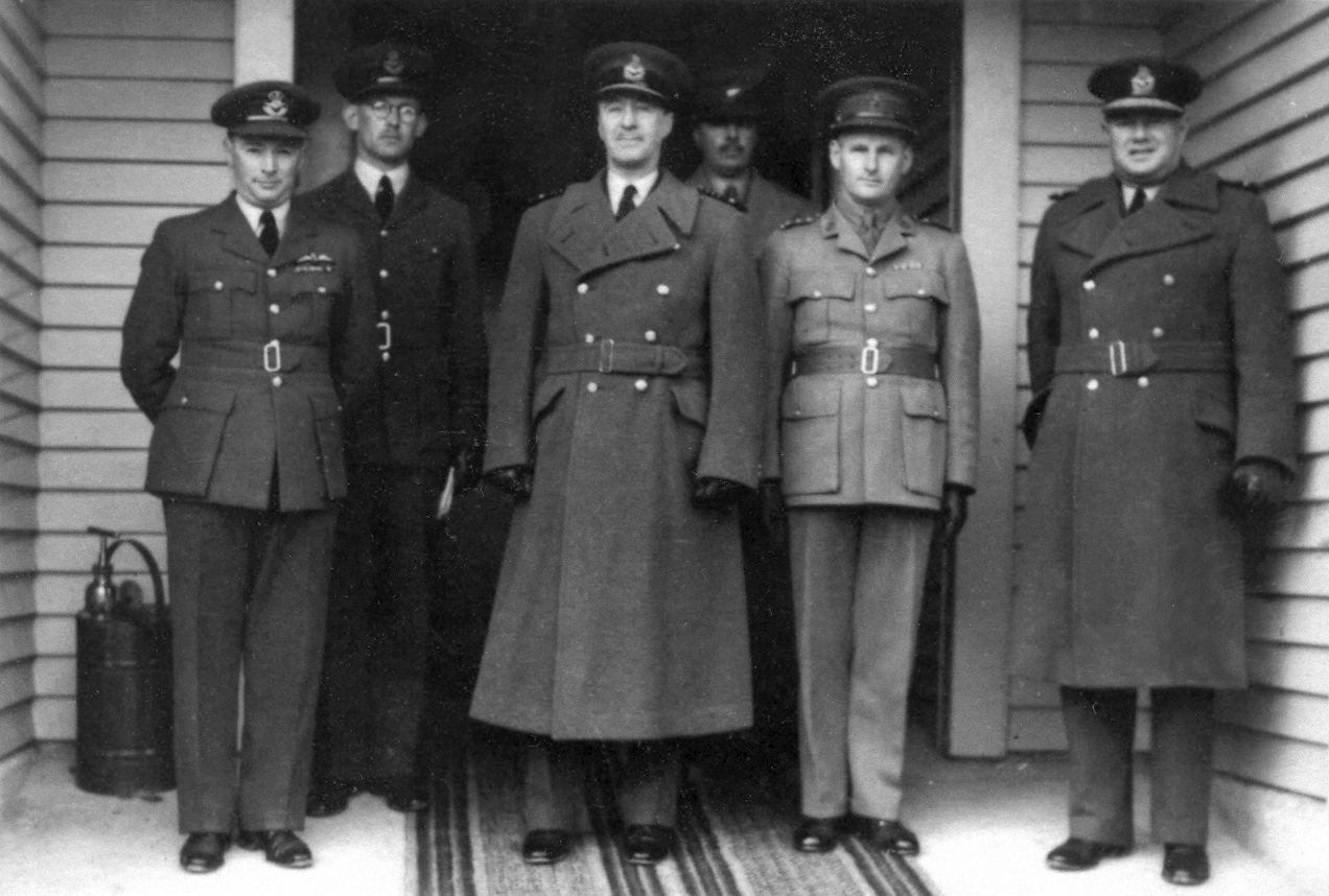 The Governor-General of New Zealand, Marshal of the RAF Sir Cyril Newall (shown centre), with Dr. Thompson and others at Air Training Wing, Kimberley, 1940s.